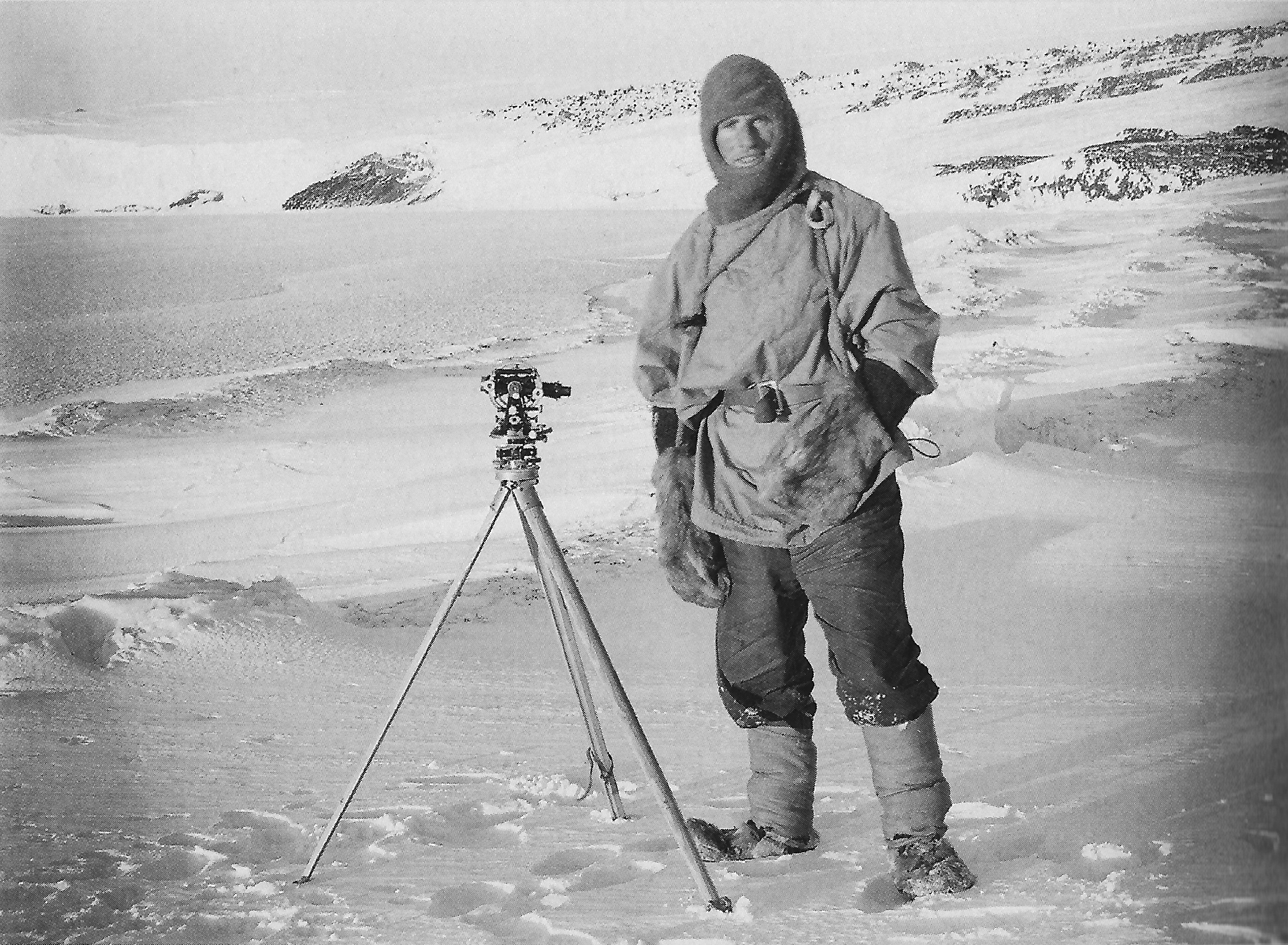 Edward Evans, 1. Baron Mountevans, in October 1911 during Robert Falcon Scott's Terra-Nova-Expedition